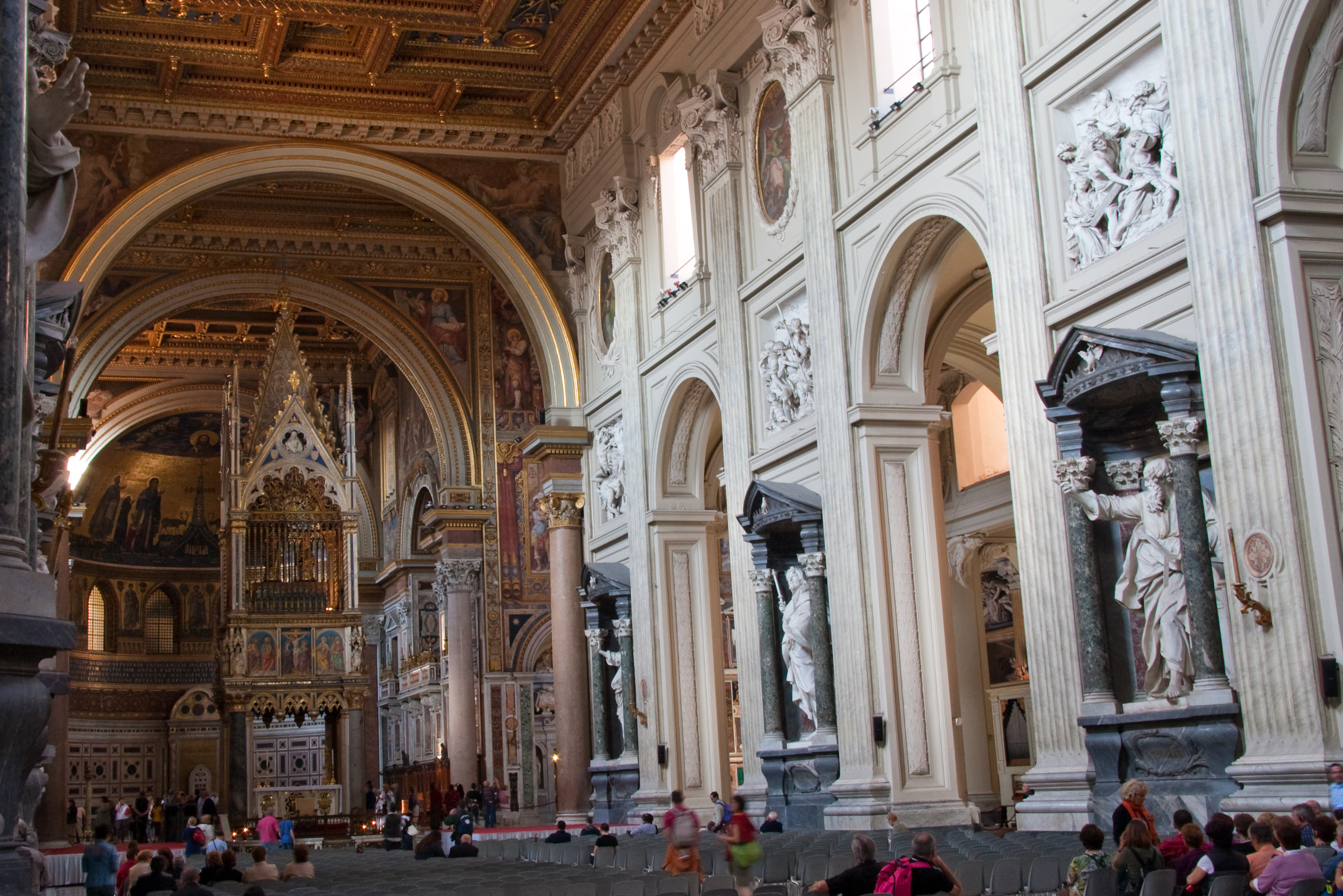 San Giovanni in Laterano is the cathedral church of Rome. 41°53′9.26″N 12°30′22.16″E / 41.8859056°N 12.5061556°E